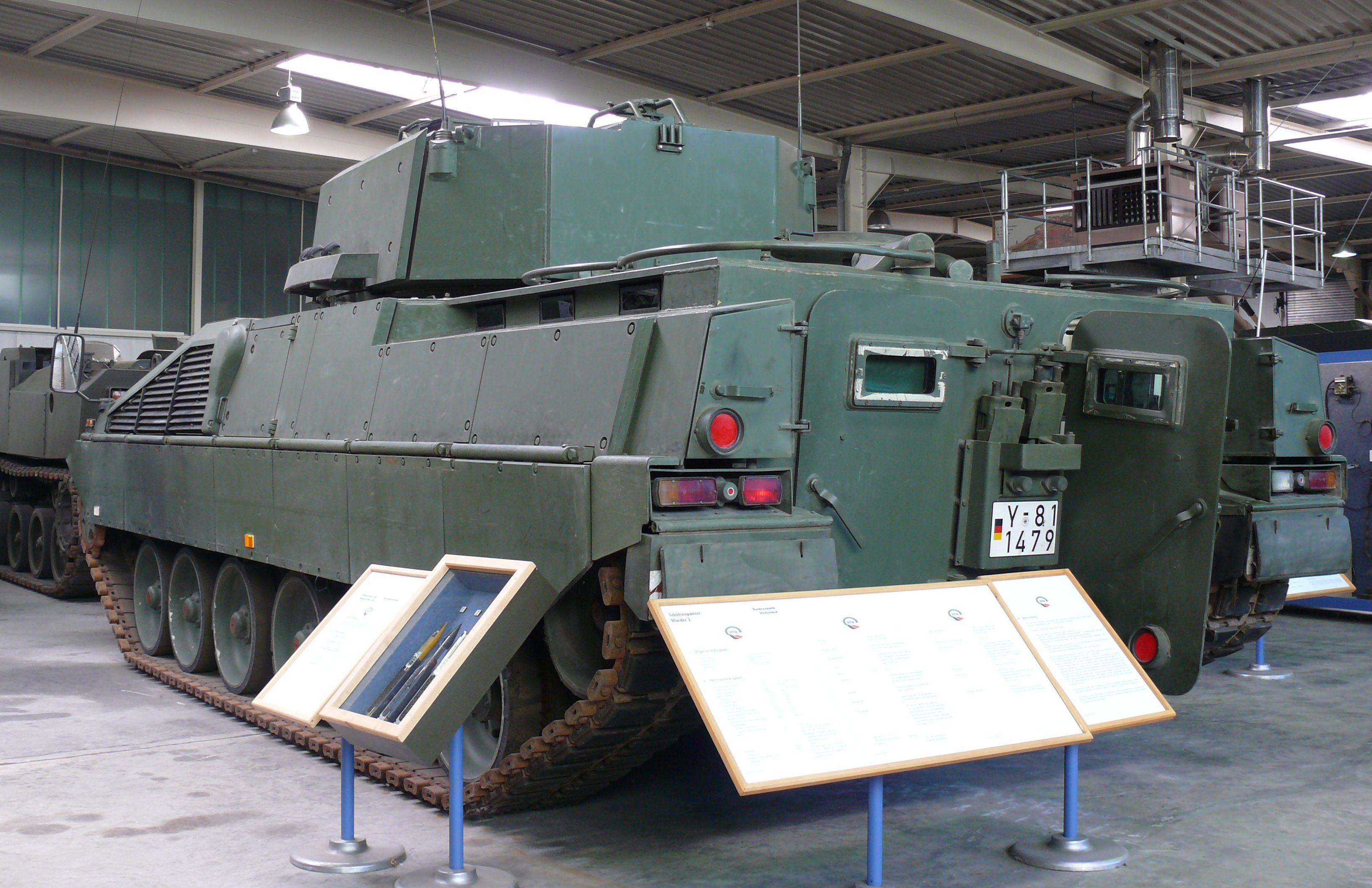 Rear view of the Marder 2 IFV.